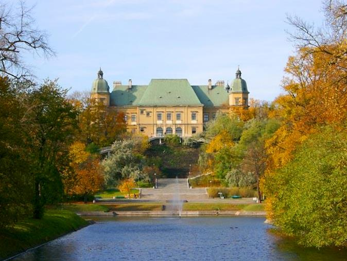 Ujazdowski Castle in Warsaw with the permission of the authors Marek and Ewa Wojciechowscy [1]